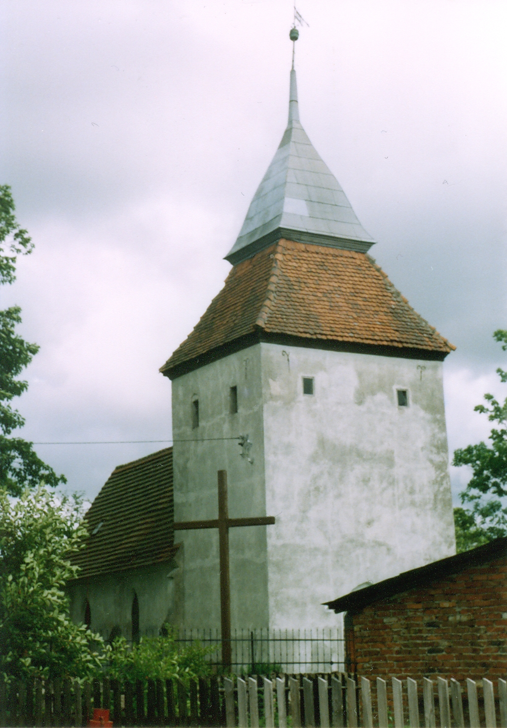 Swołowo, church of the Assumption of Mary